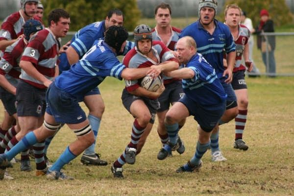 Five Eighth on the fly